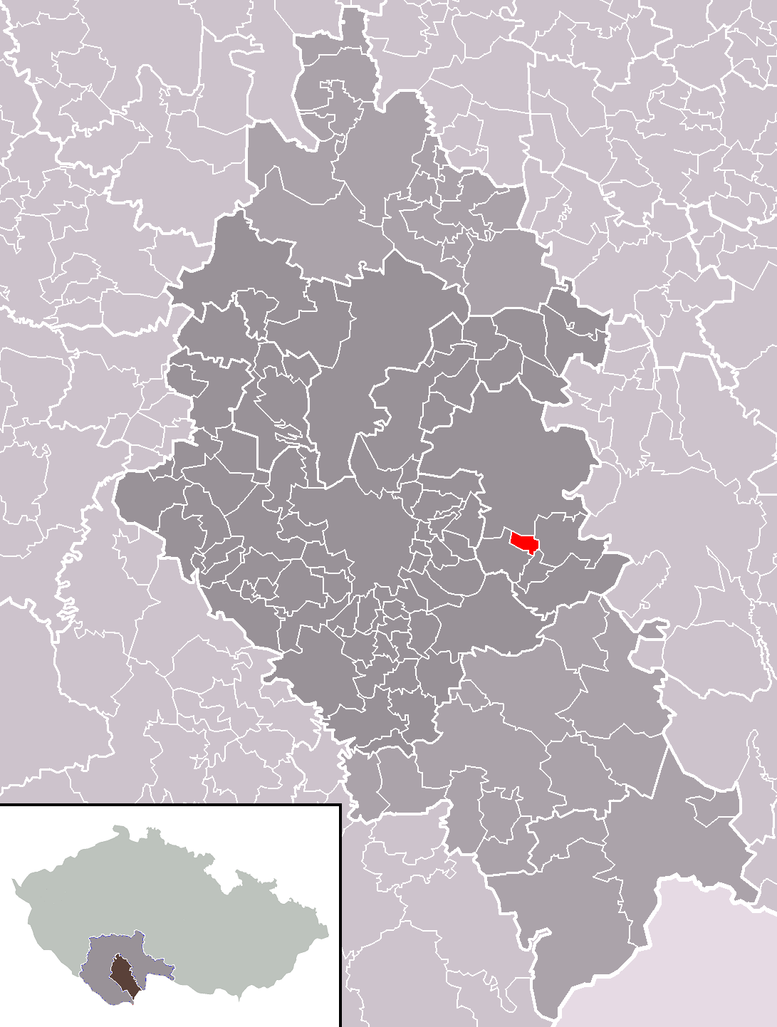 Location of Hvozdec municipality within České Budějovice District and administrative area of České Budějovice as a Municipality with Extended Competence.